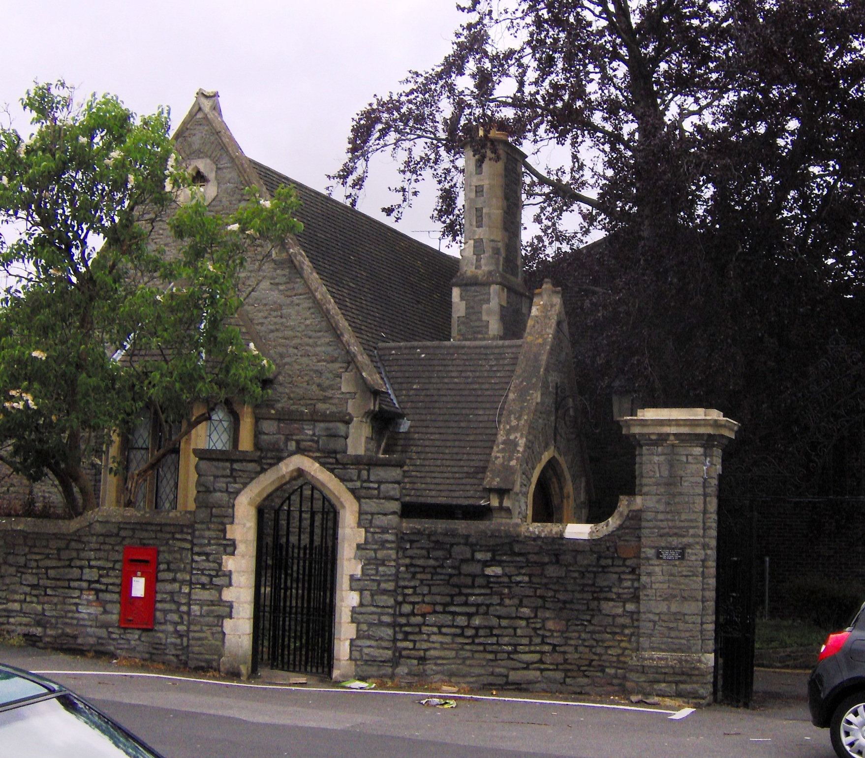 Lodge at St Matthias, Bristol. Taken by Rod Ward 11th May 2007